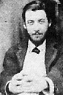 Willie Wilde taken at Trinity College, Dublin